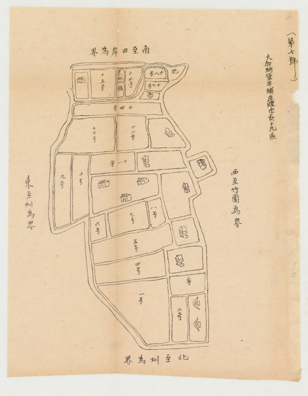 Cadastral Map of Taiwan 1880s